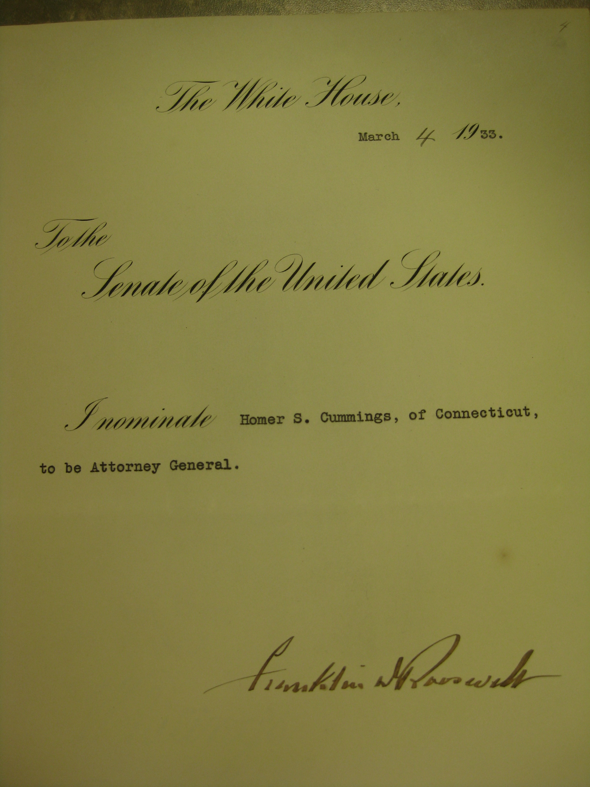 Franklin Roosevelt's nomination of Homer Cummings to serve as Attorney General. Courtesy of the National Archives and Records Administration.